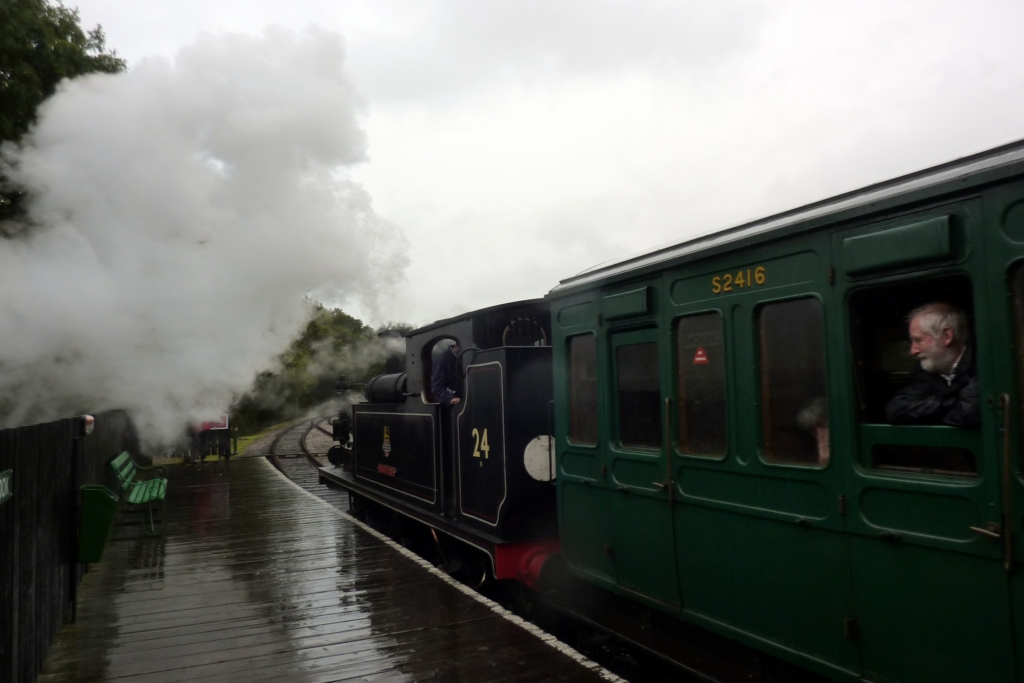 Calbourne's a bit of a show off if you ask me. Likes to put lots of smoke about!